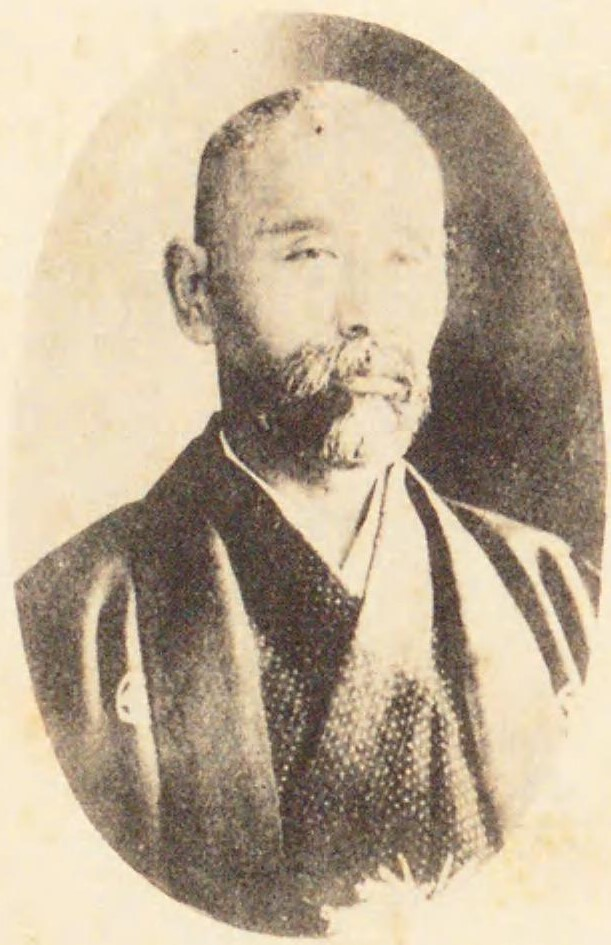 Tanaka Yoshinari (1860 - 1919), a historian of Japan. 51 year old in 1910.